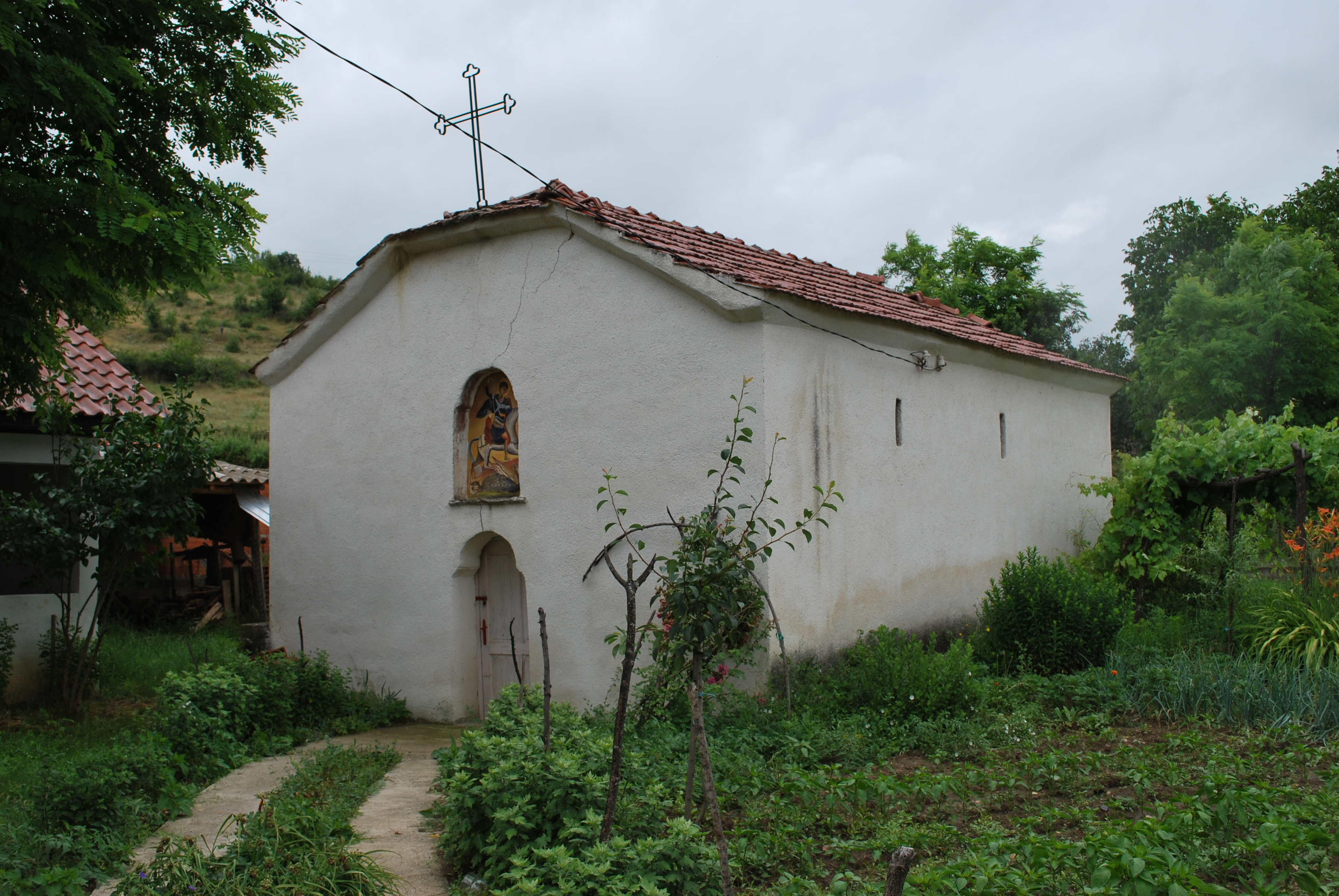 St. George's Church in Sušica, near Skopje, Macedonia